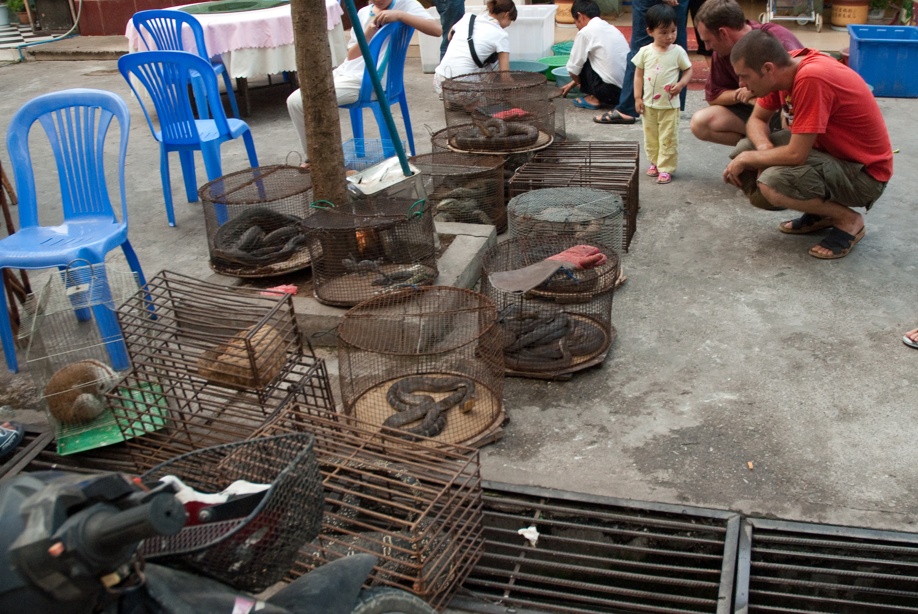 Illicit Endangered Wildlife Trade in Möng La, Shan, Myanmar